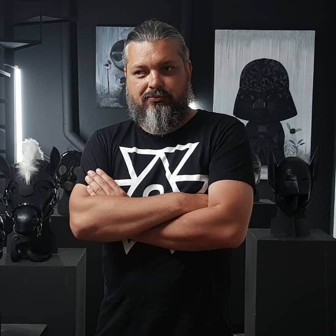 artist's portrait, Bob Basset